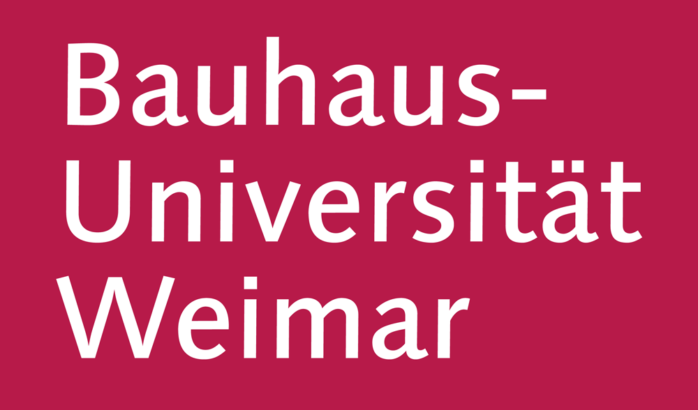 Official logo of the Bauhaus University Weimar